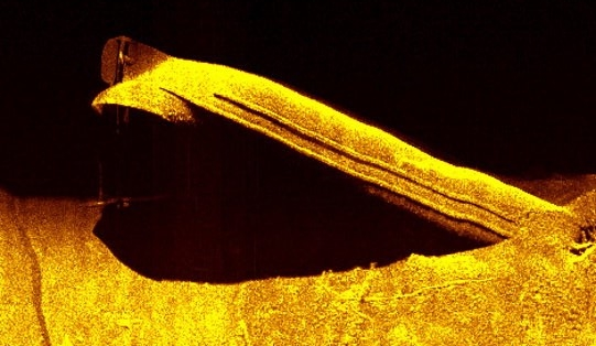 An AUV-acoustic scan of the vessel identified as straight back steamer Choctaw collected in June, 2017. The rounded sides characteristic of this vessel can be seen via the lack of defined edge on the upper (left) side as it extends into the lake bottom. Its unique, pointed stern is also visible. One-third of Choctaw, however, appears buried in the lake bottom. Source: NOAA Thunder Bay National Marine Sanctuary.